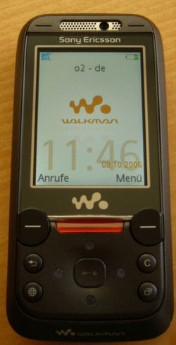 Sony Ericsson W850i mobile phone with German menu, image edited (rotated, cropped, right bottom edge cloned)